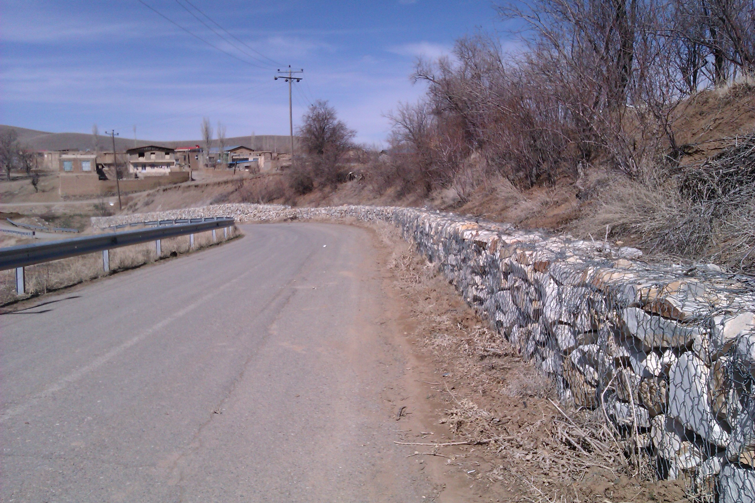 farajabad روستایی زیبا در استان مرکزی شهرستان خمین